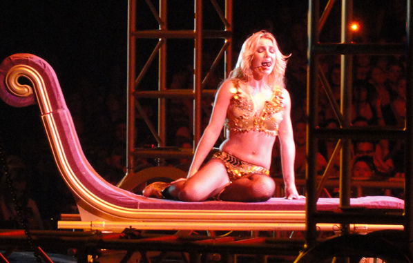 Spears